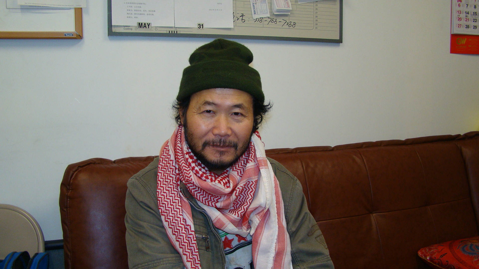 American sculptor Chen Weiming.